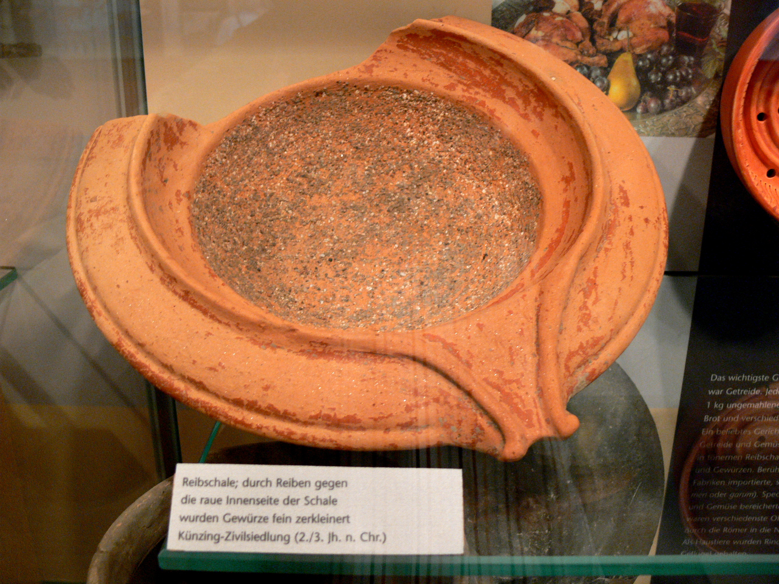 Museum Quintana - Roman department. Roman device for grinding herbs.